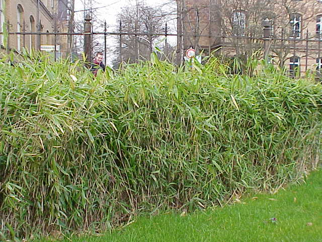 Species: Arundinaria pumila Family: Poaceae Image No. 3